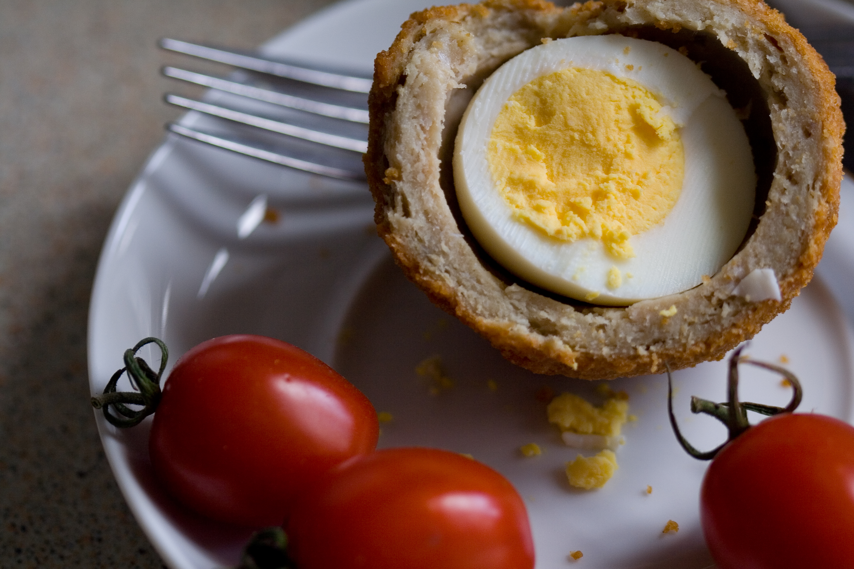 One scotch egg (No jar of Marmite)